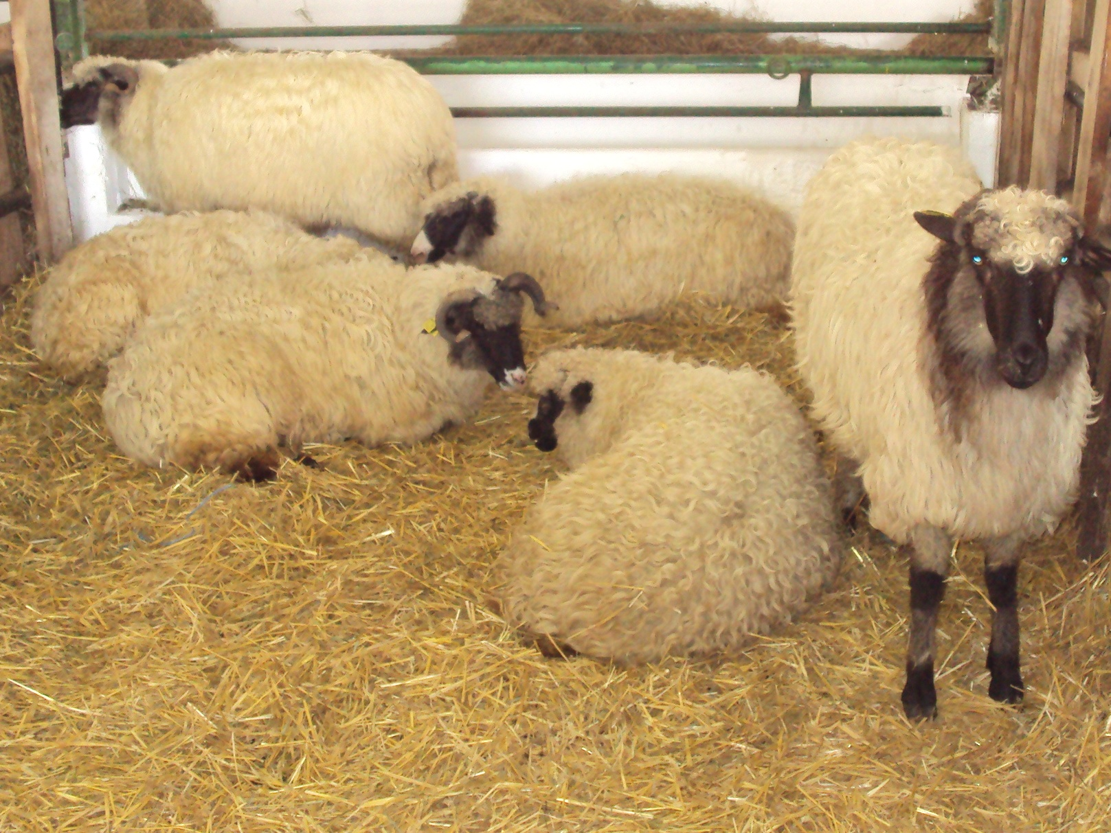 Sheep from the city of Travnik, Bosnia and Herzegowina- Agriculture Fair in Bjelovar, Croatia